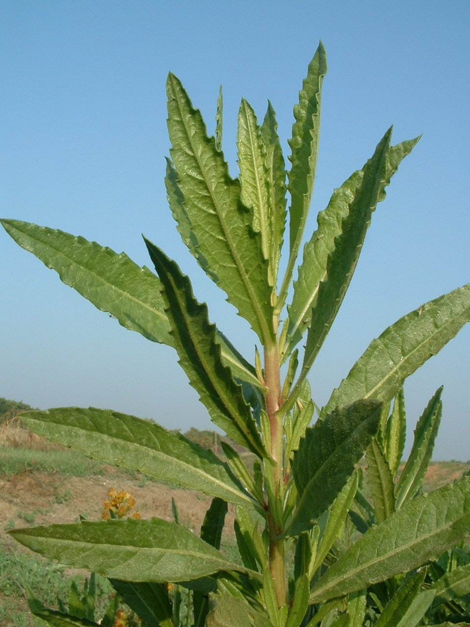 Lesser elecampane (Inula viscosa) leaves. Photographed by myself in December 2005, with Fuju FinePix 2650 camera.